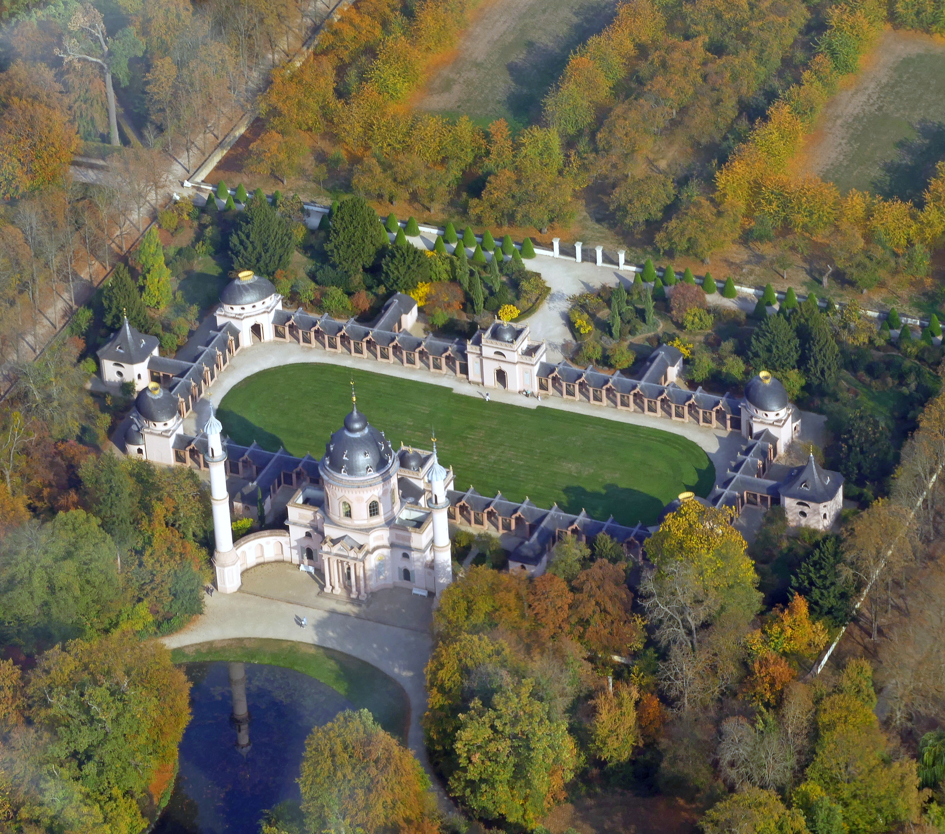 Aerial view from a gyroplane from the mosque in the park of Schwetzingen Castle